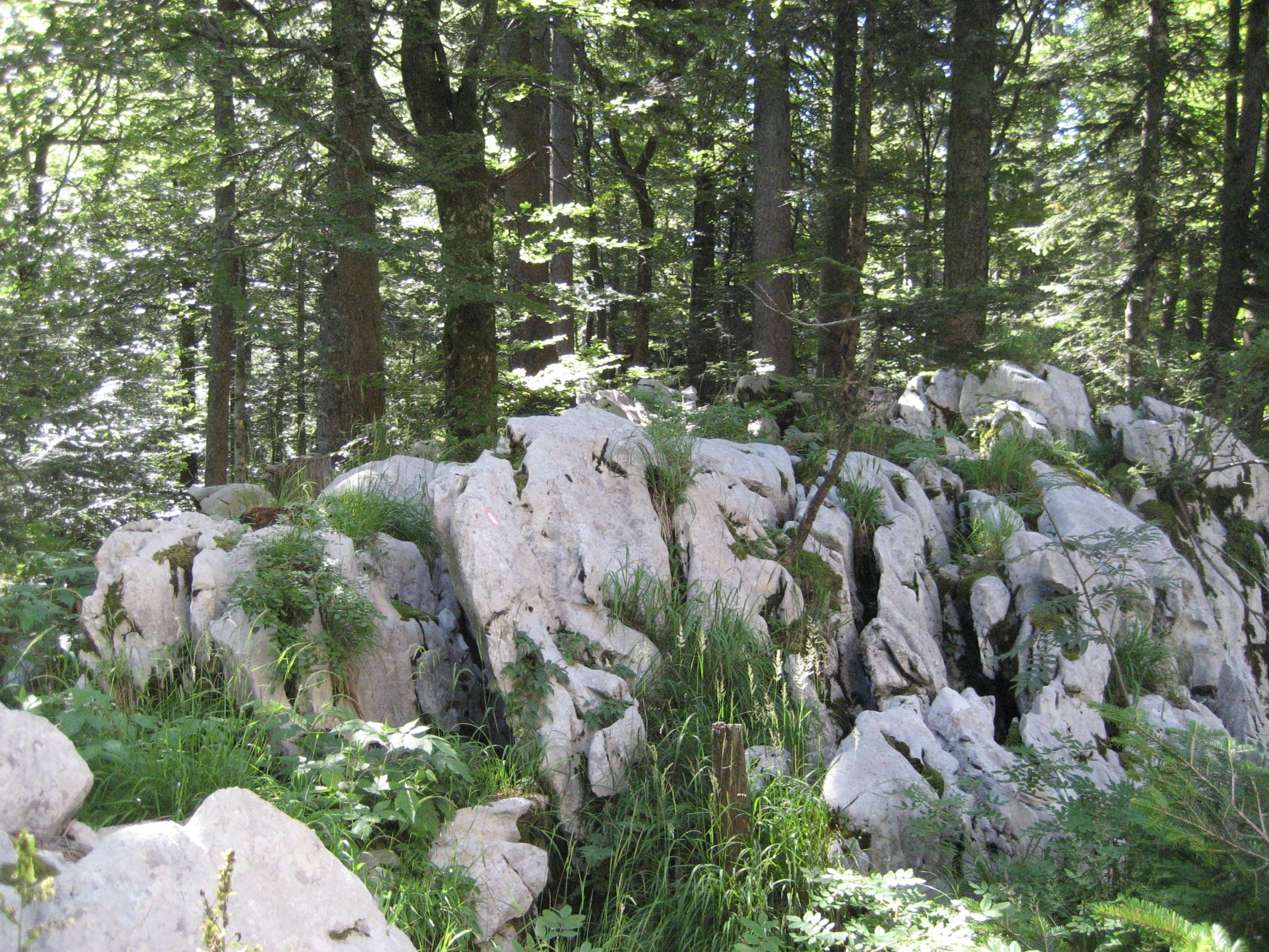 Bijele i samarske stihene, Croatia